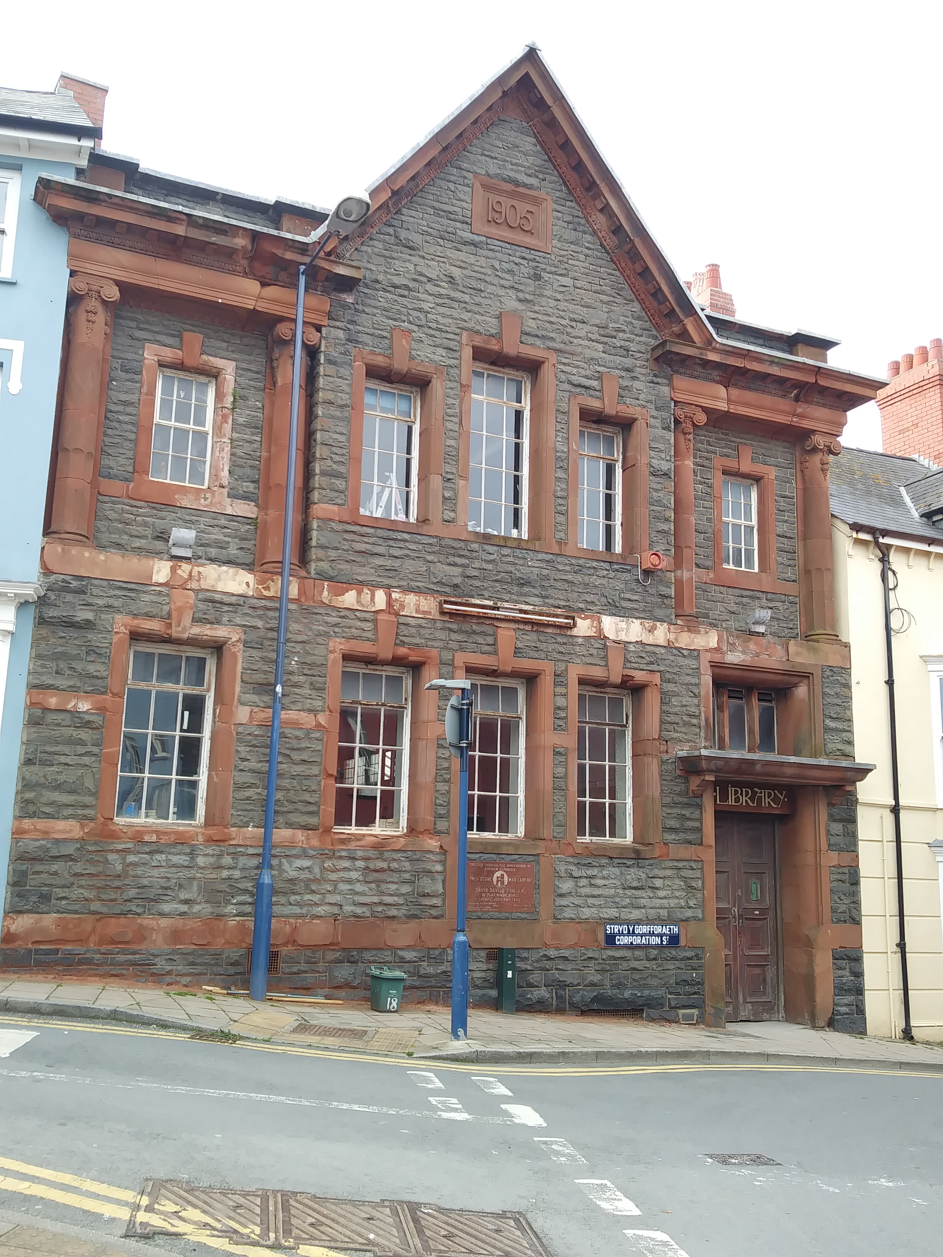 Aberystwyth old town library